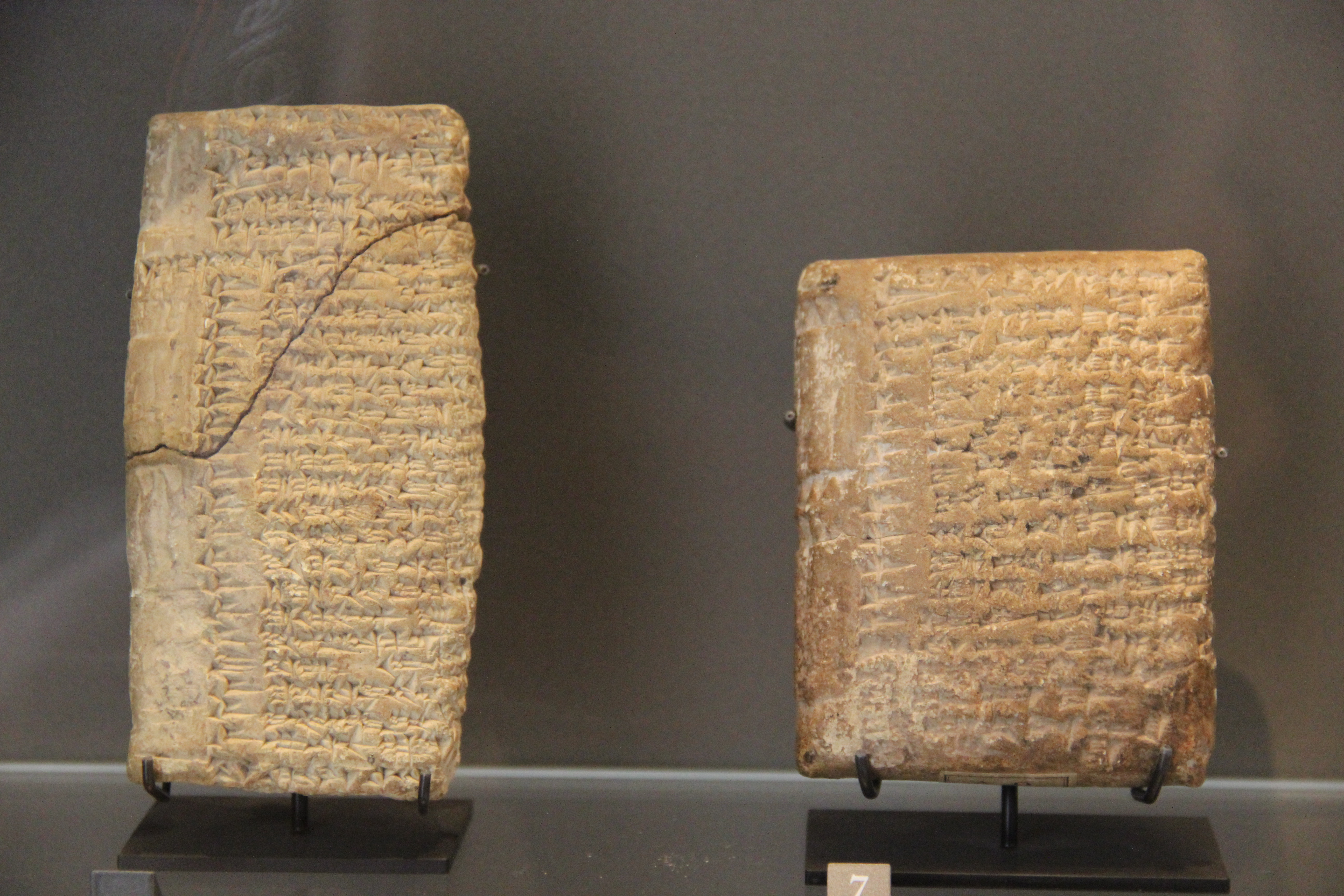 Cuneiform Clay Tablets from Amorite Kingdom of Mari, 1st Half of 2nd Mill. BC Ancient Near East Gallery, Louvre Museum, Paris, France. Complete indexed photo collection at .